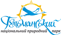 Hetmanskyi National Park